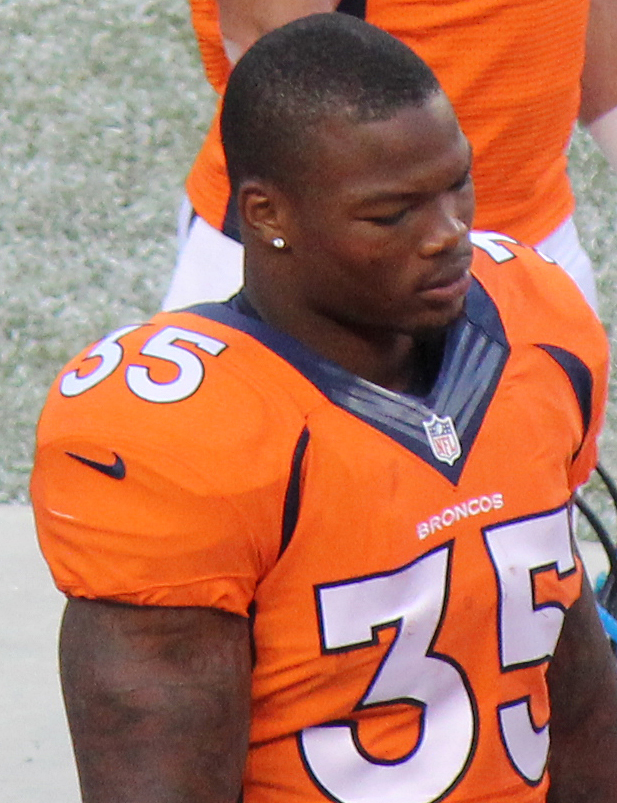 Kapri Bibbs, a player on the National Football League.